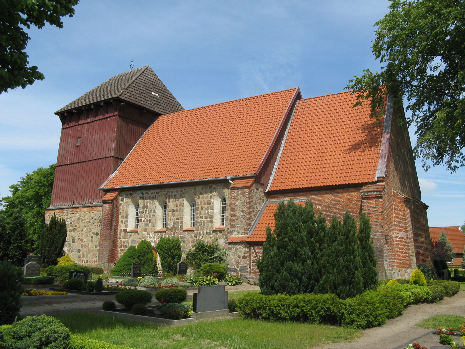 Church in Zahrensdorf (Neu Gülze), Mecklenburg-Vorpommern, Germany